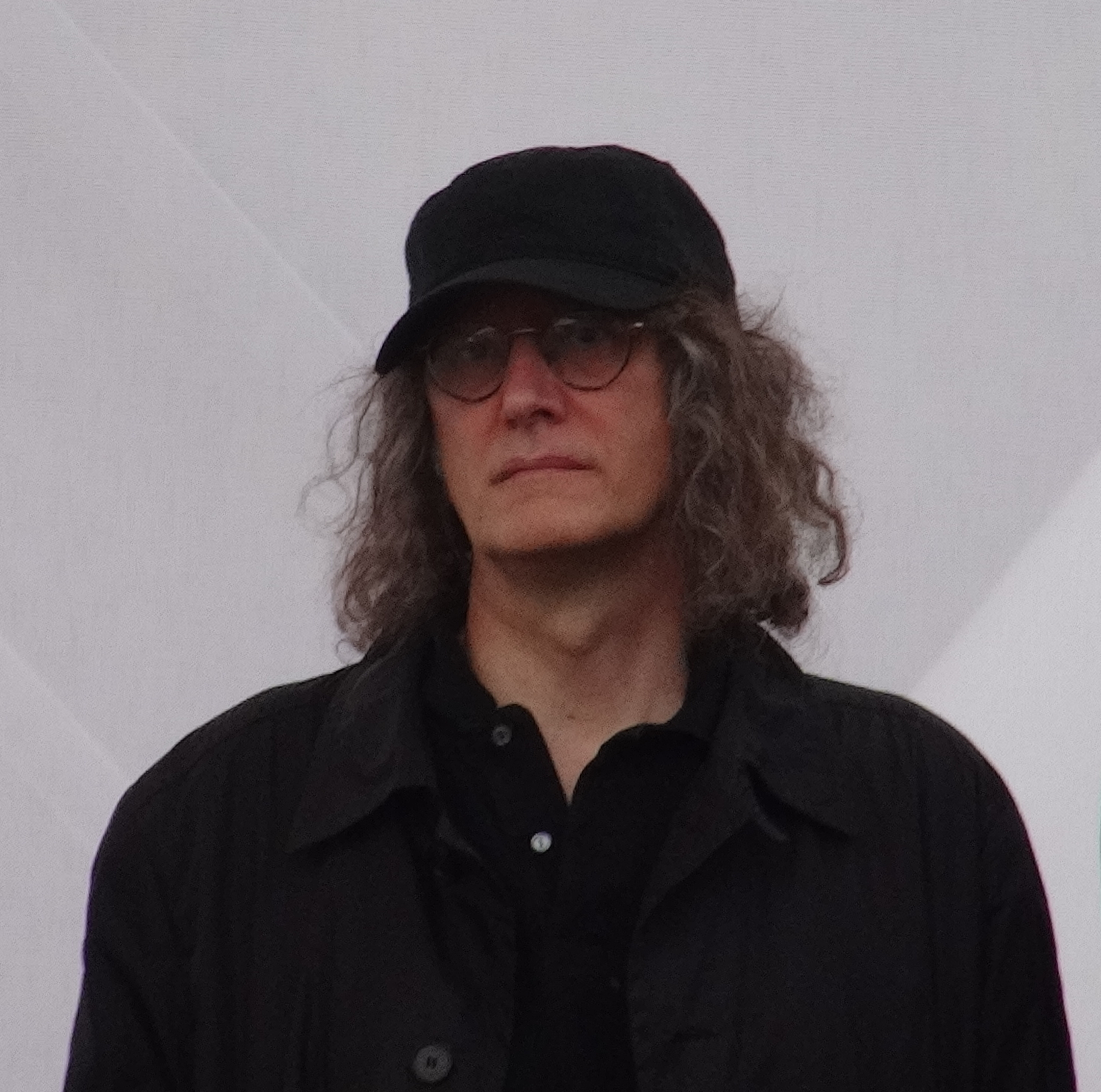 Gianroberto Casaleggio 23 maggio 2014